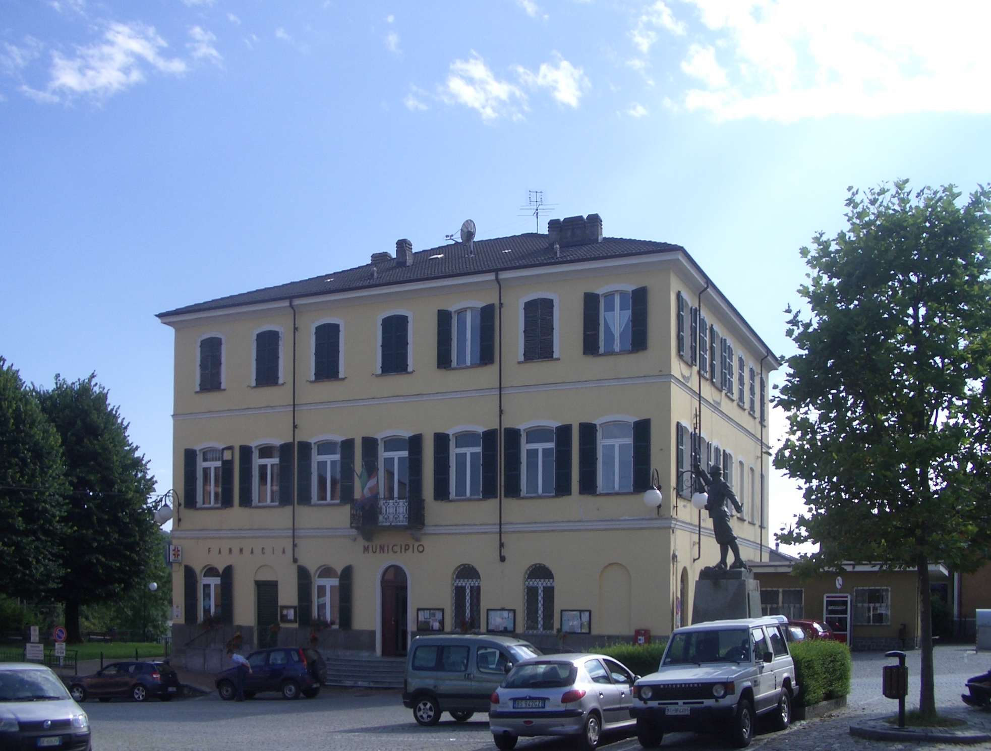 Rueglio, Town Hall